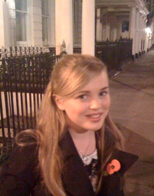 Isabel Suckling after the Festival of Remembrance in the Royal Albert Hall.